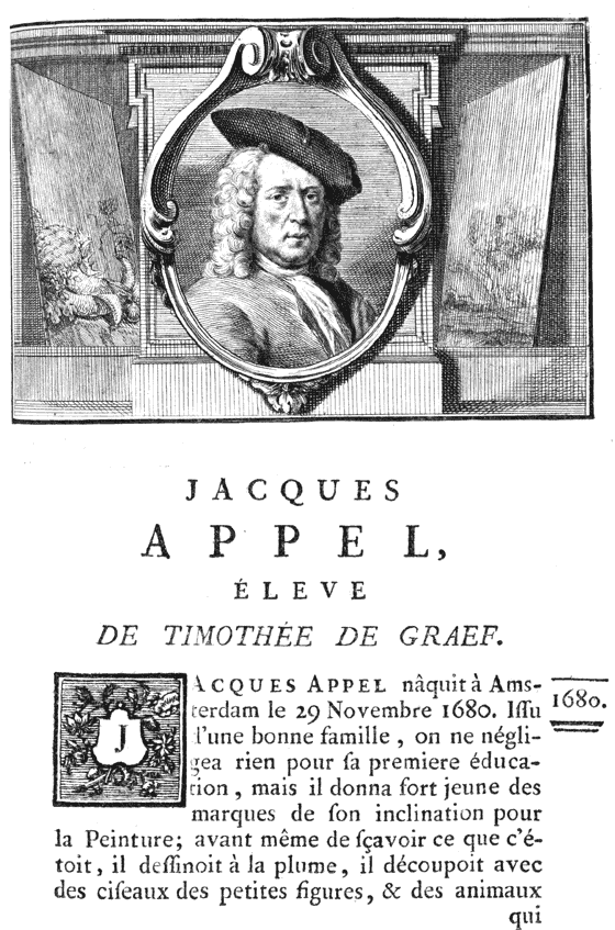 Biography of Jacques Appel with engraved portrait featured on page 219 of "Tome Quatrieme" of Jean-Baptiste Descamps' "La Vie des Peintres Flamands", 4 volumes (I 1753, II 1754, III, 1760, IV 1764)